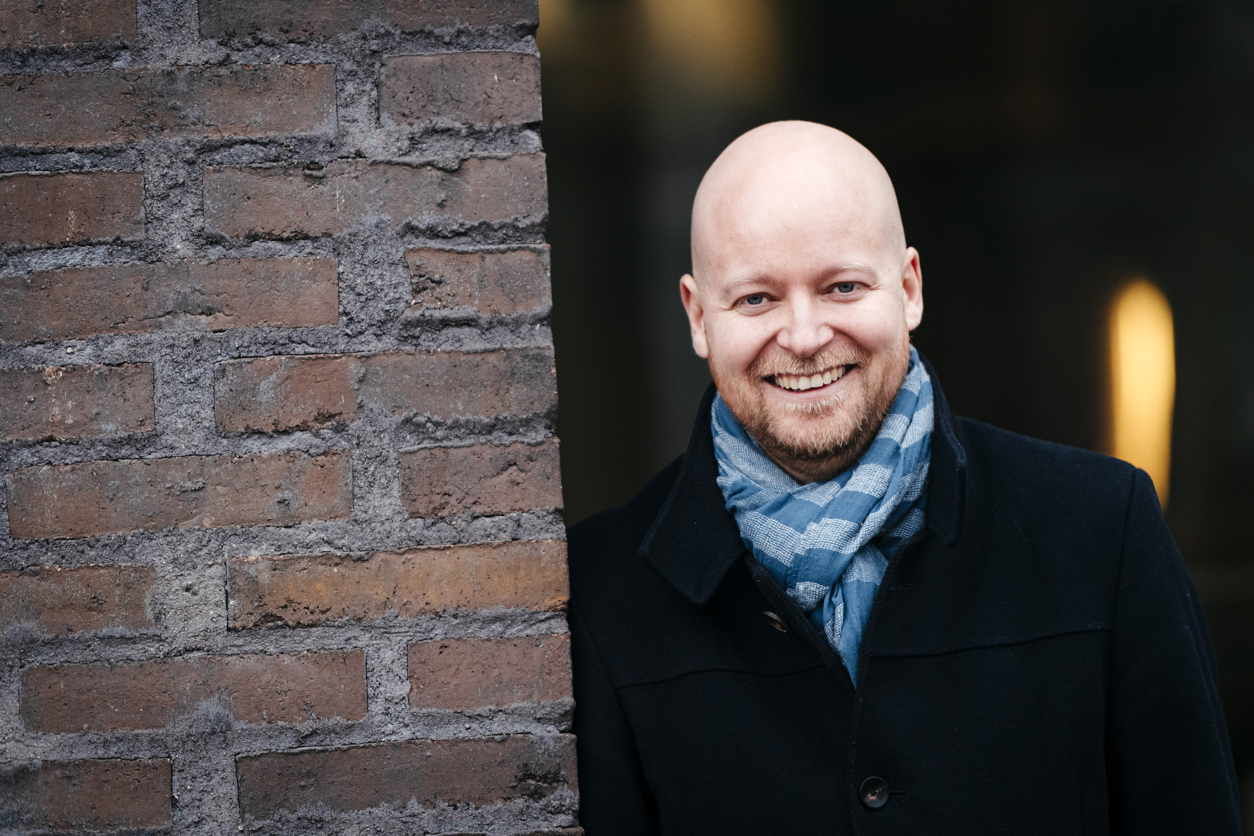 Jussi Saramo, Member of Finnish Parliament.